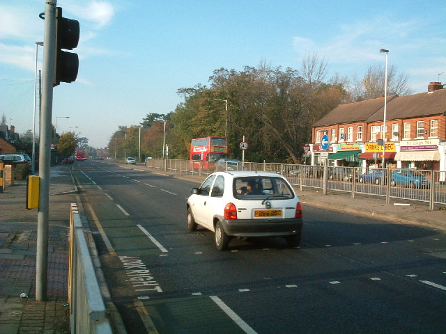 Uxbridge Road. View towards Uxbridge whilst standing at Hillingdon Village. Crescent Parade on the right